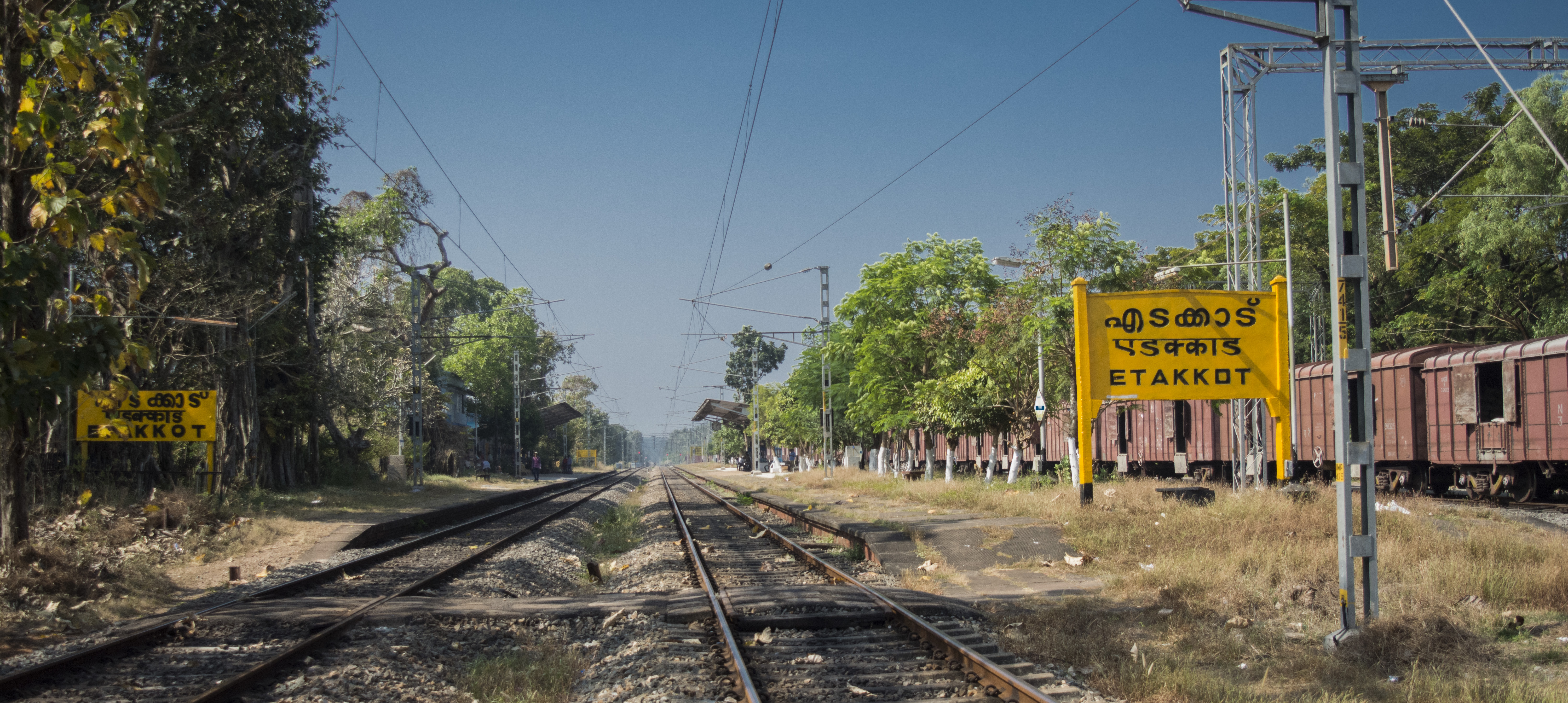 A local railway station in kannur, kerala